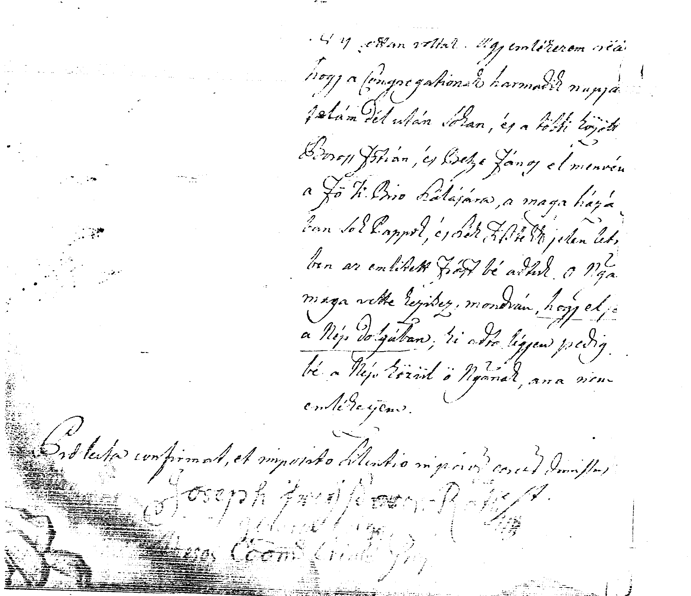 Foto copy of original document from 1764.